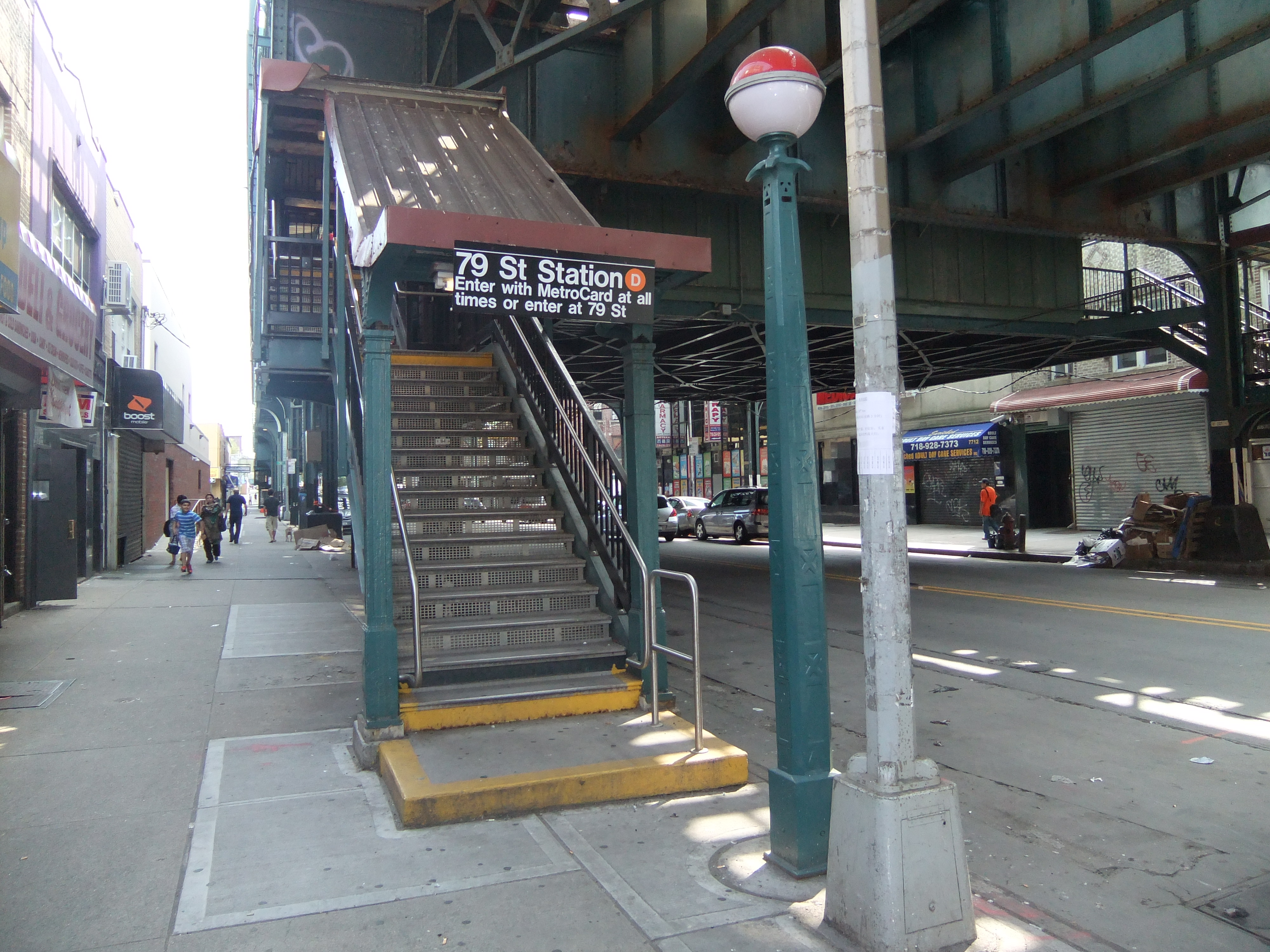 Stair at 77th Street to the 79th Street station.